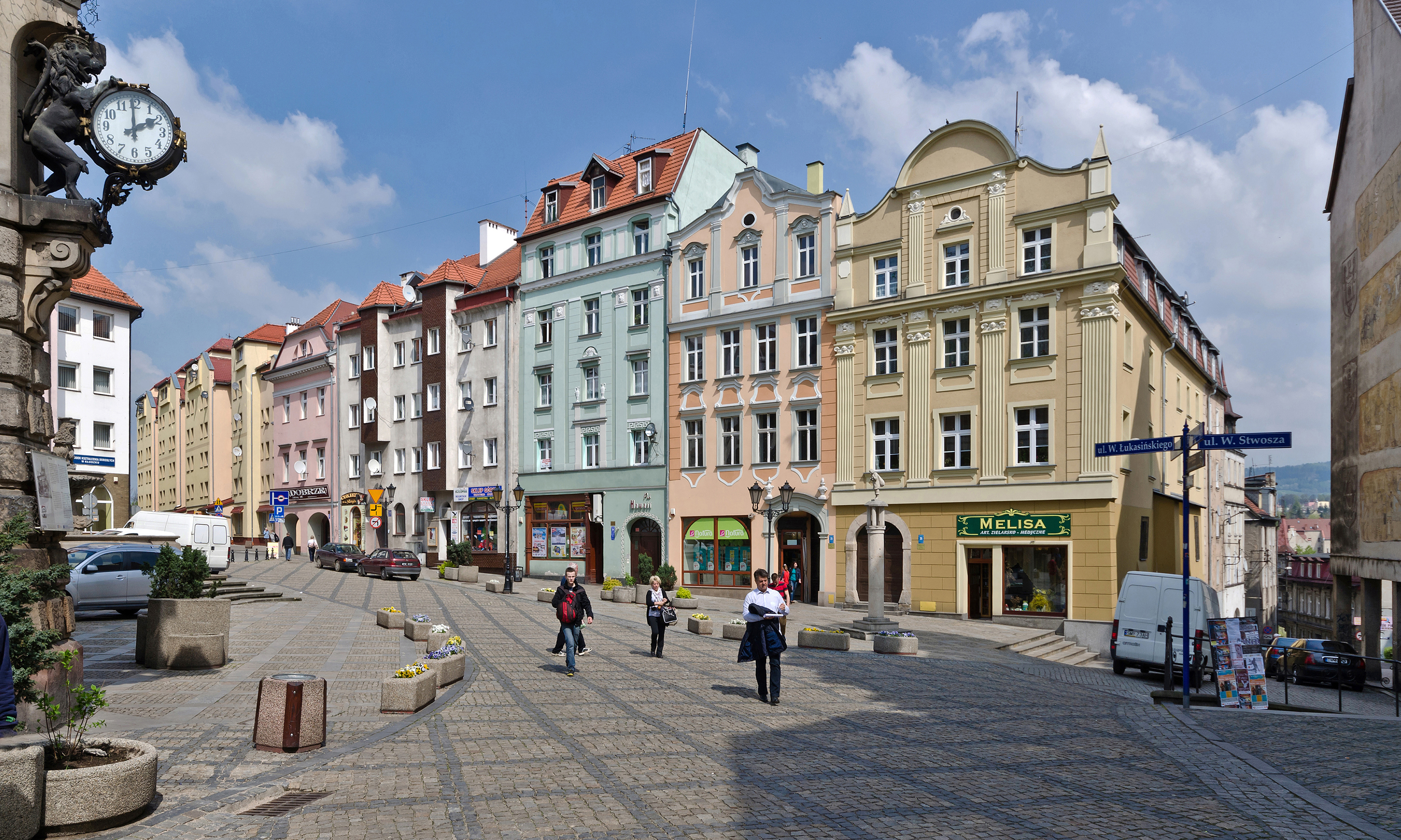 Estern frontage of the market square in Kłodzko